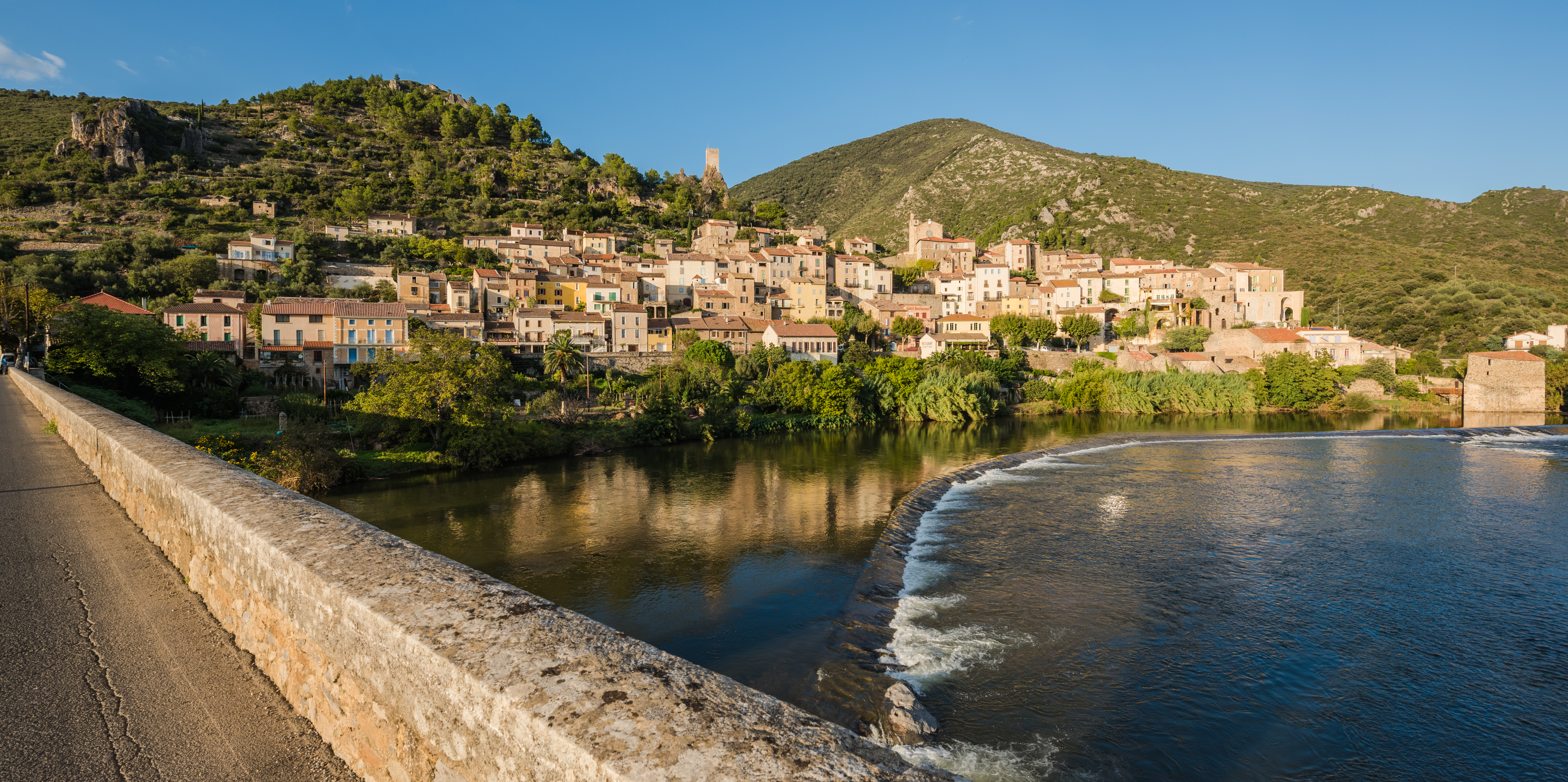 The village of Roquebrun from the Bridge above the Orb River.Roquebrun, Hérault, France. Haut-Languedoc Regional Natural Park.